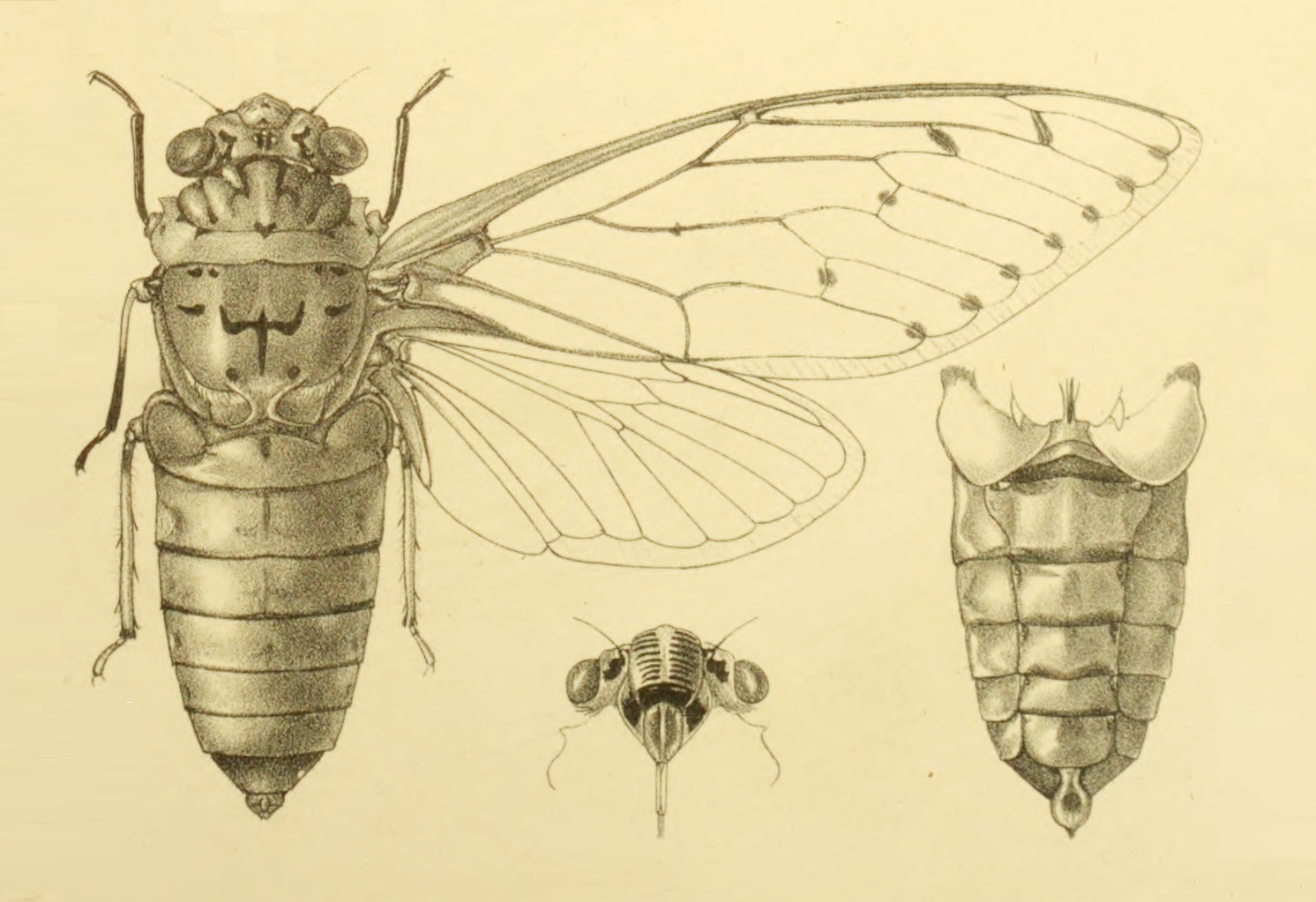 Megapomponia imperatoria (Westwood, 1842)